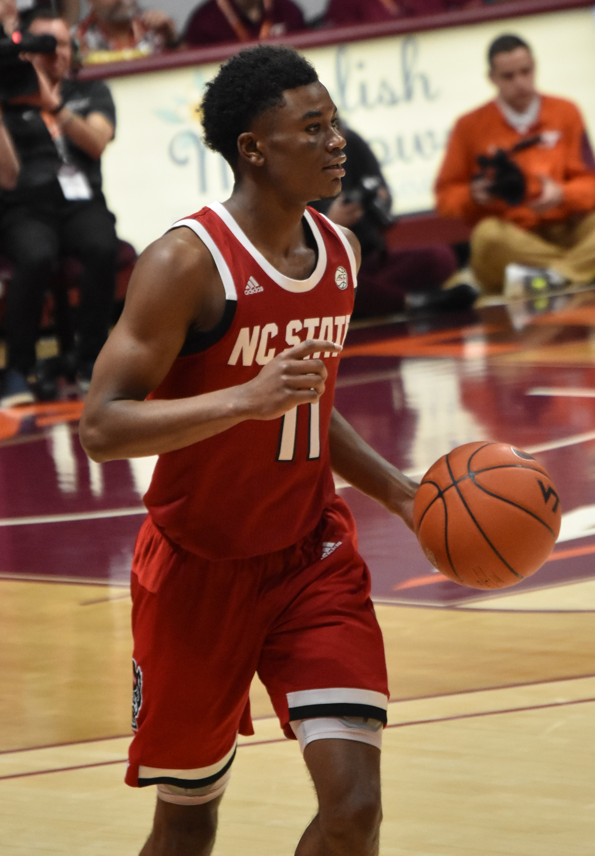 Markell Johnson bring the ball up court for the Wolfpack at Cassell Coliseum